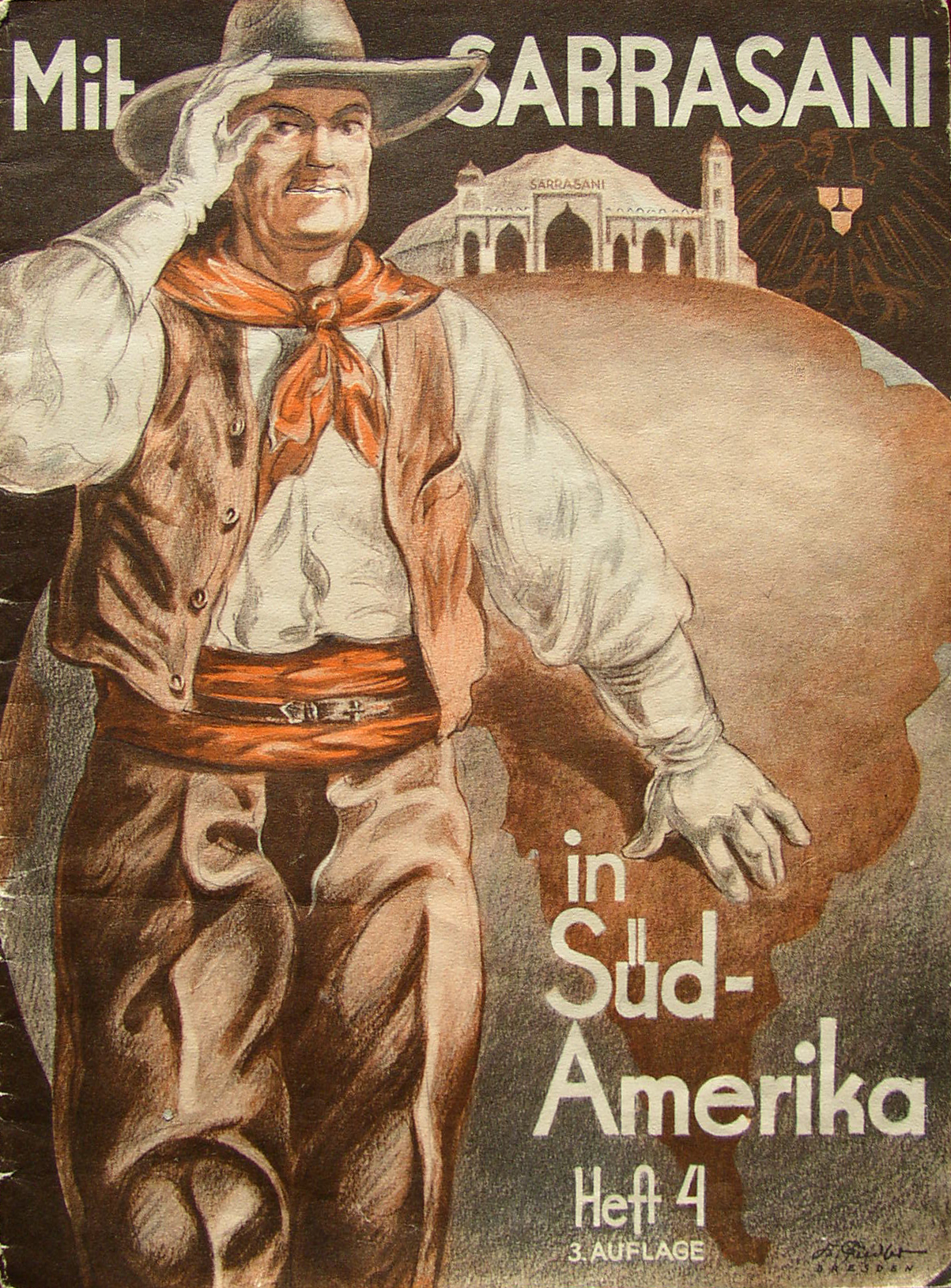 Nr. 4 was distributed as part of the jubilee edition on occasion of the 30th anniversary of the circus in 1932.